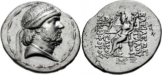 Tetradrachm of Phraates II.